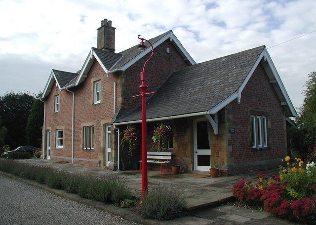 Former Station House, Stutton